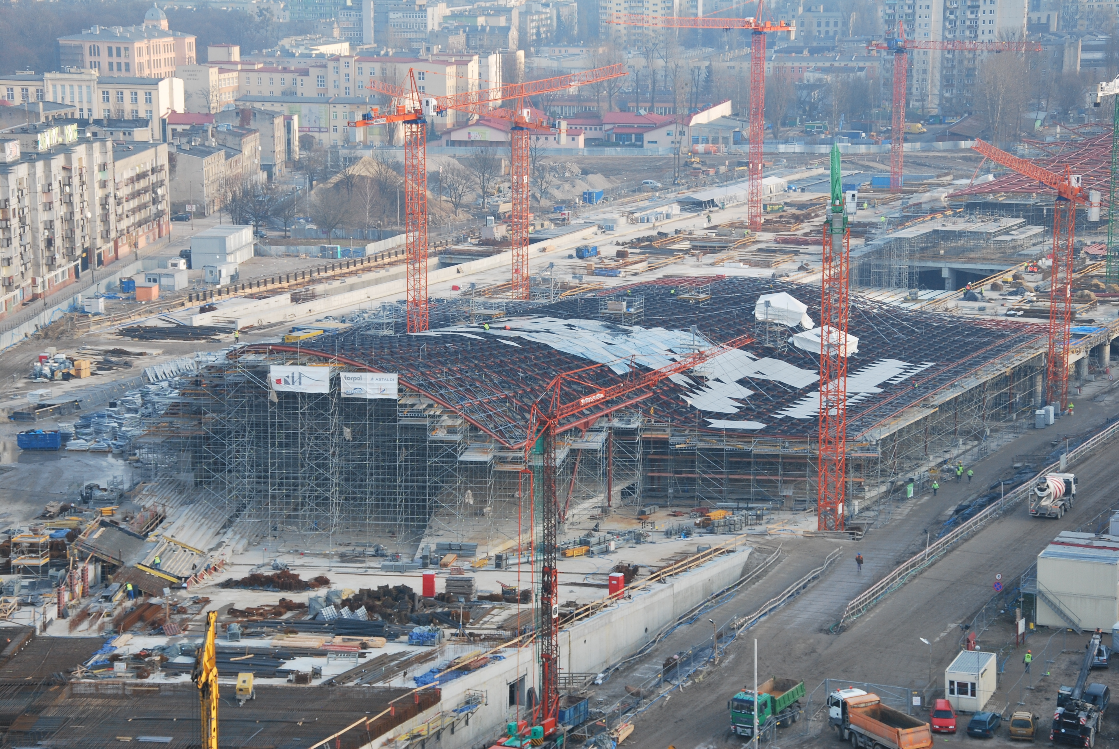 Building of new Łódź Fabryczna Station January 2015 - Main Hall